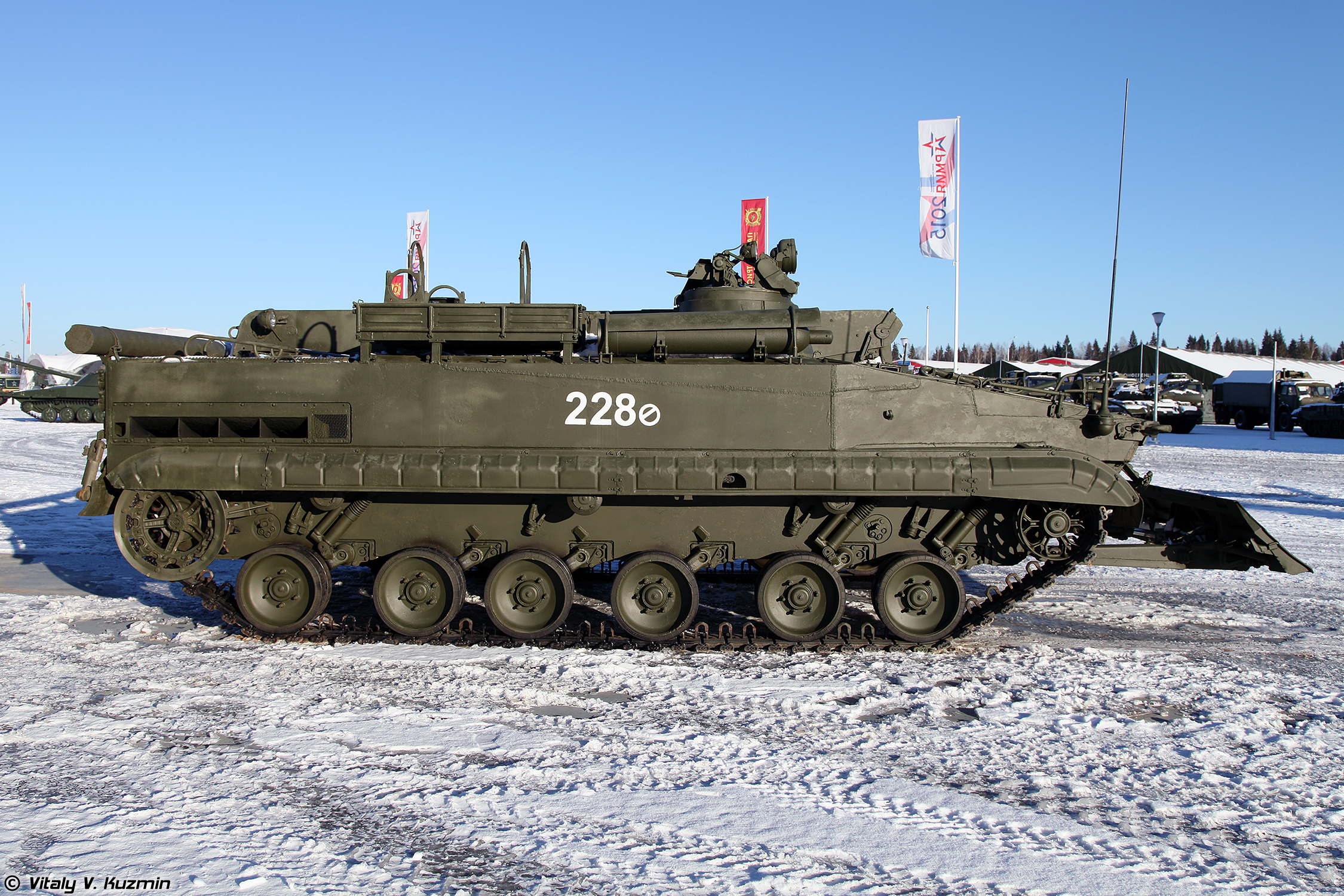 BREM-L armored recovery vehicle